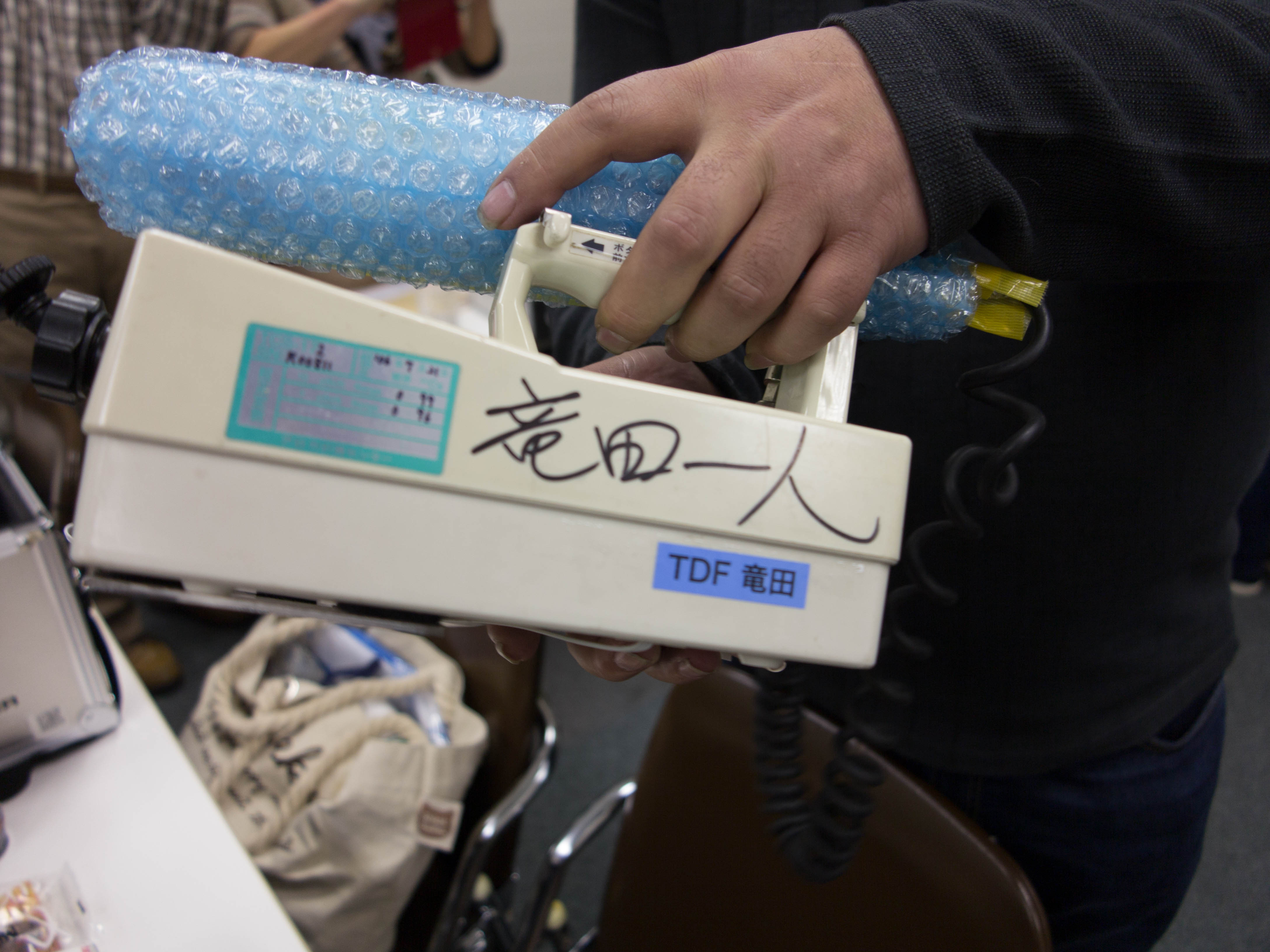 Haruhiko Okumura, Professor of the Faculty of Education, Mie University, took a photo of the survey meter that was written the sign of Kazuto Tatsuta in Fukushima Prefecture on December 12, 2015.